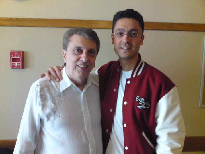 Christian Carrasco from the Spanish Doo wop band Earth Angels with Randy Safuto from the Randy & the Rainbows vocal group of this same genre. The picture was taken during their participation in the Doo wop festival celebrated at the Hotel Hilton in Pittsburgh, Pensilvania in May 2010, with the greatests of the American vocal group bands of this genre during the 20st century.